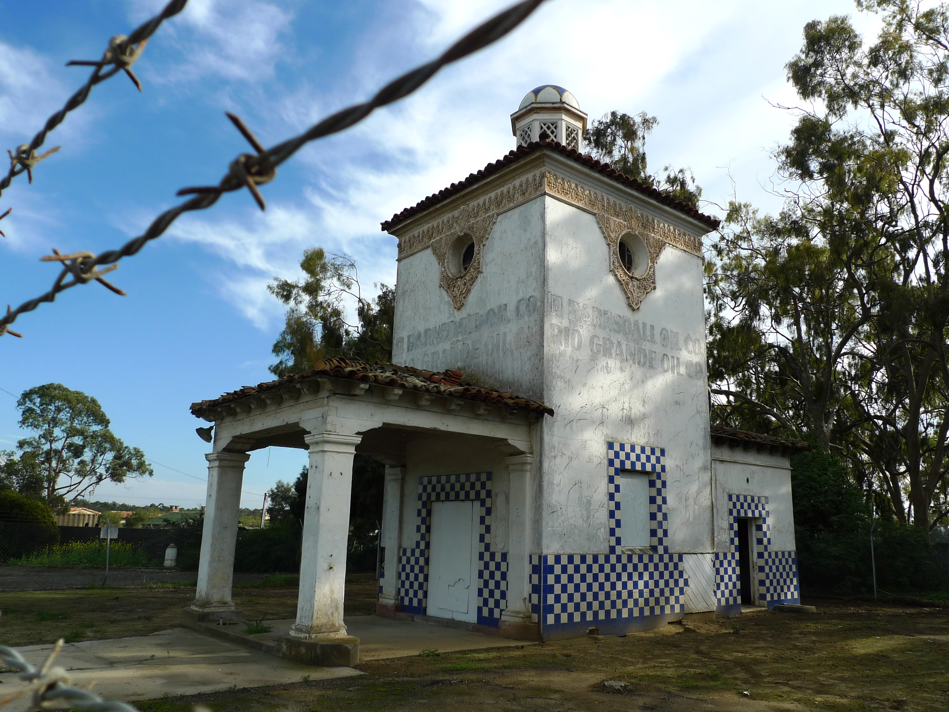 The historic Barnsdall-Rio Grande service station in the Ellwood neighborhood of Goleta, California (closely associated with the next-door Ellwood Oil Field). Built in 1929 in the Spanish Colonial Revival style. Also posted on Flickr.